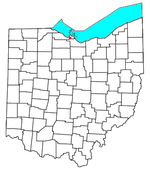 Locator map of the unincorporated community of Gypsum in Ottawa County, Ohio, United States.